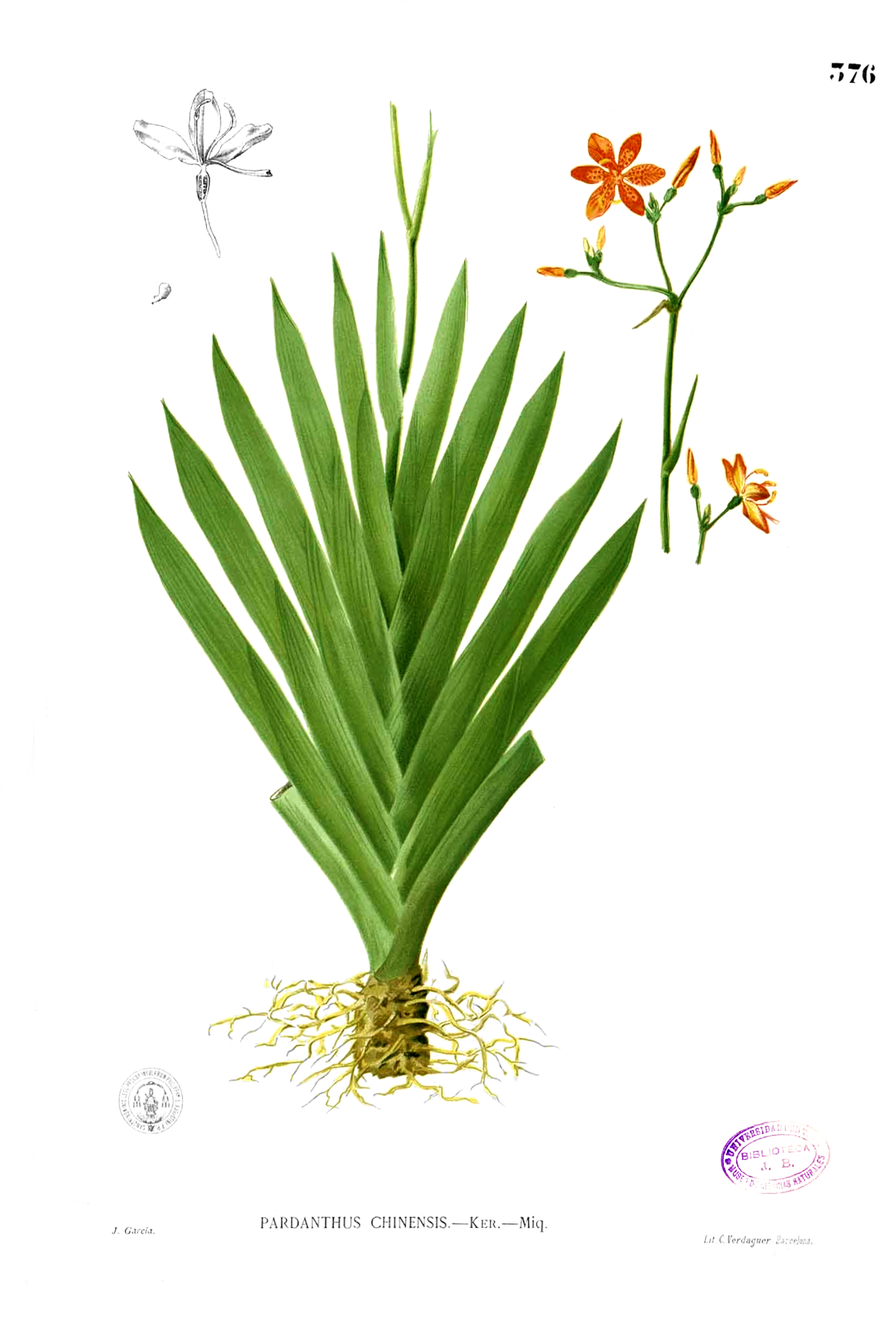 Belamcanda chinensis - Plate from book